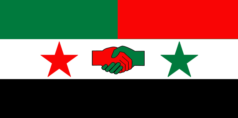 The two Syrian flags combined. Flag of the reconciliation movement. Stop the violence and start talking.